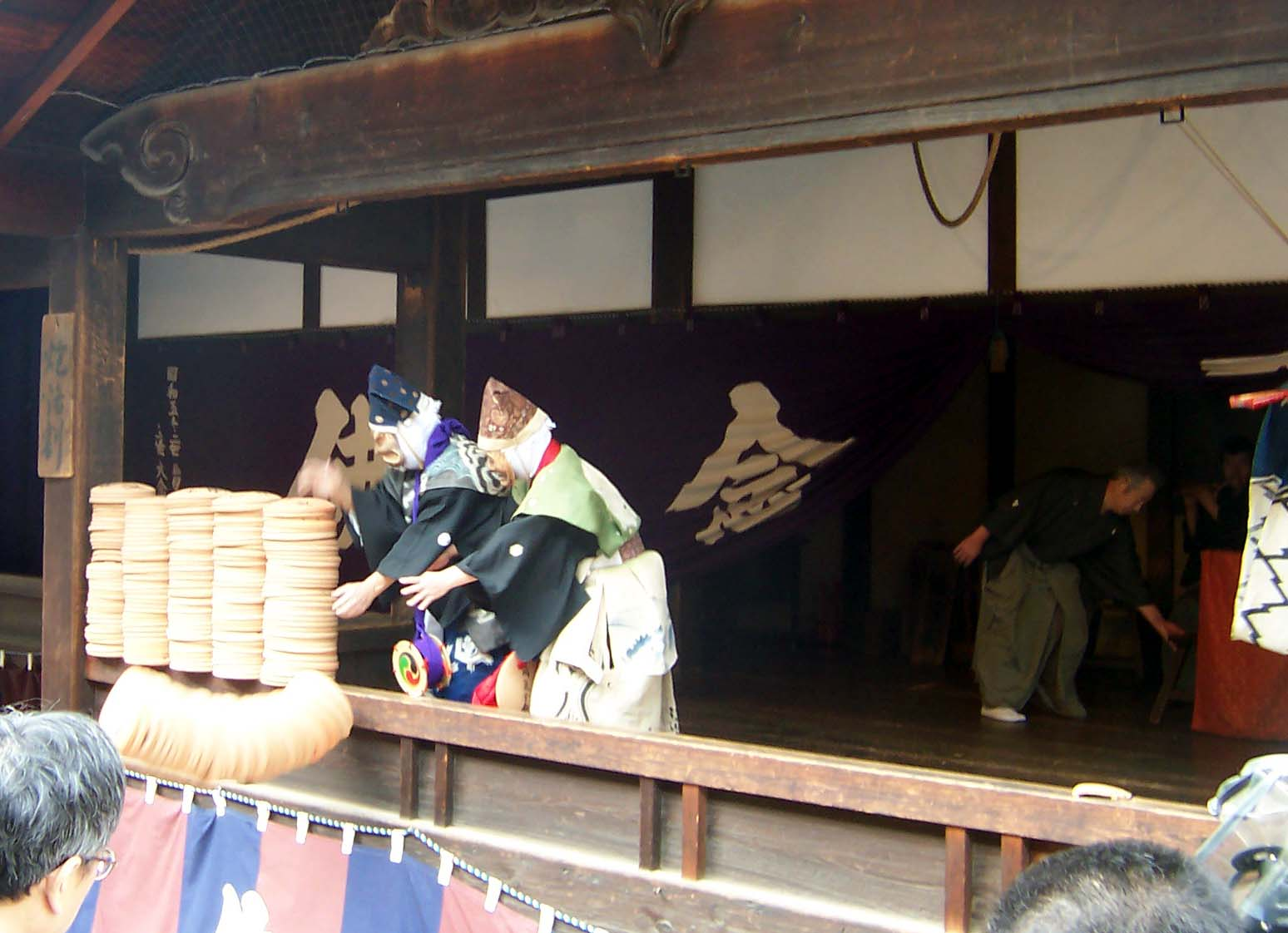 Kyōgen play at Mibu-dera, a buddhist temple in Kyoto, Japan. More detailed description at the source.